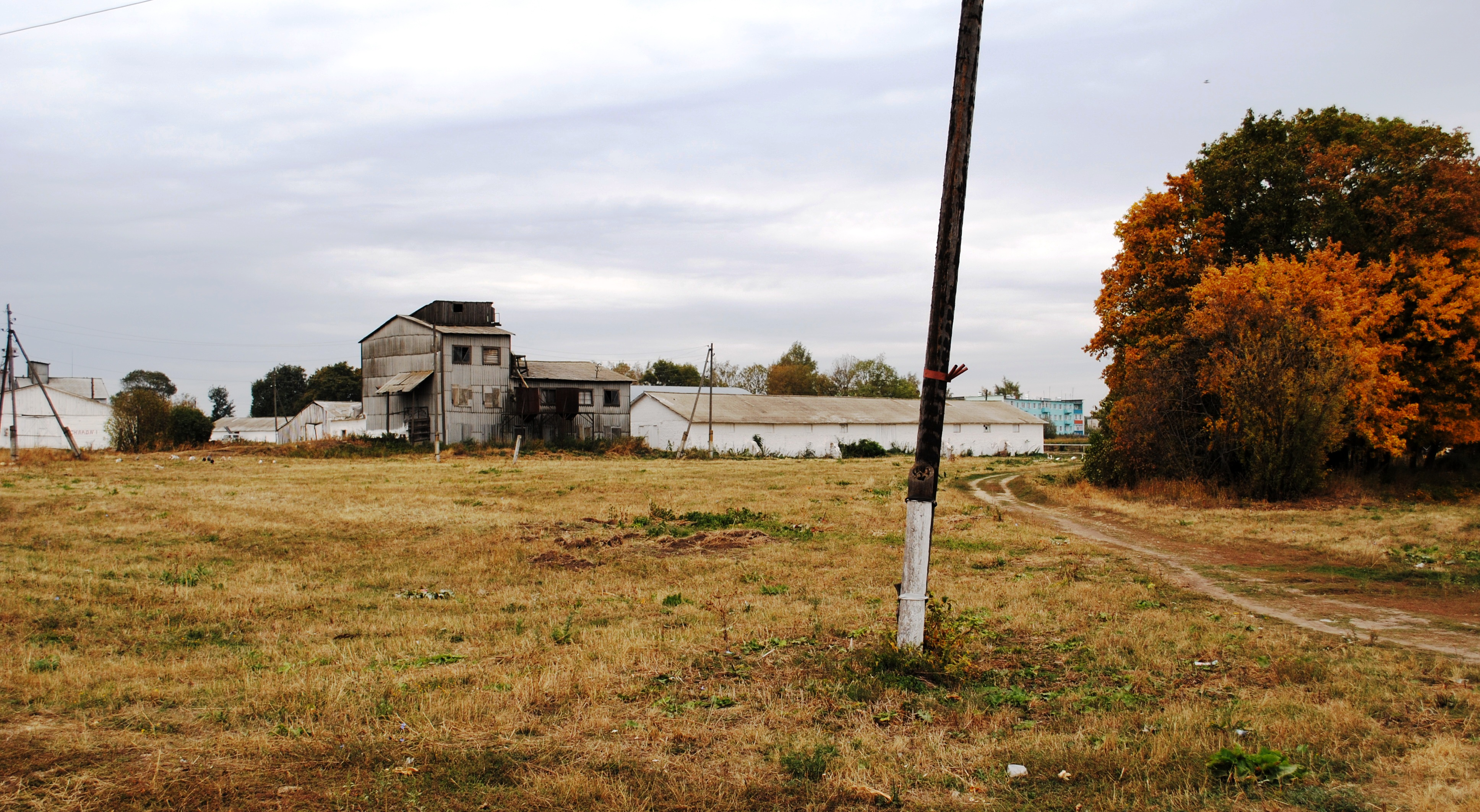 Kozminskoe